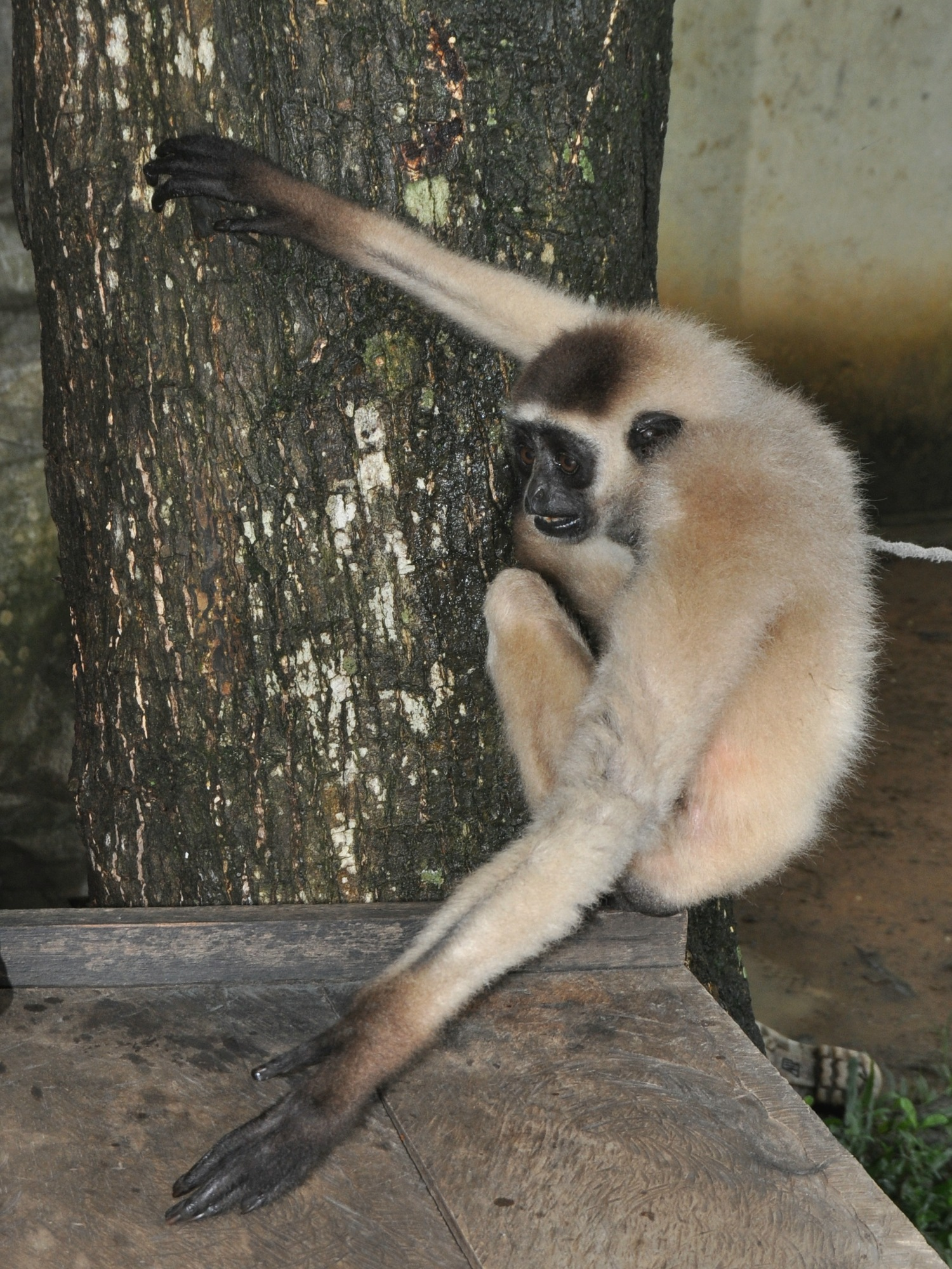 Hylobates albibarbis, juvenile. From Ketapang Regency, West Kalimantan, Indonesia